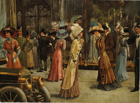 Fashion plate of 1909 shows upper class Londoners walking in front of Harrods Department Store.